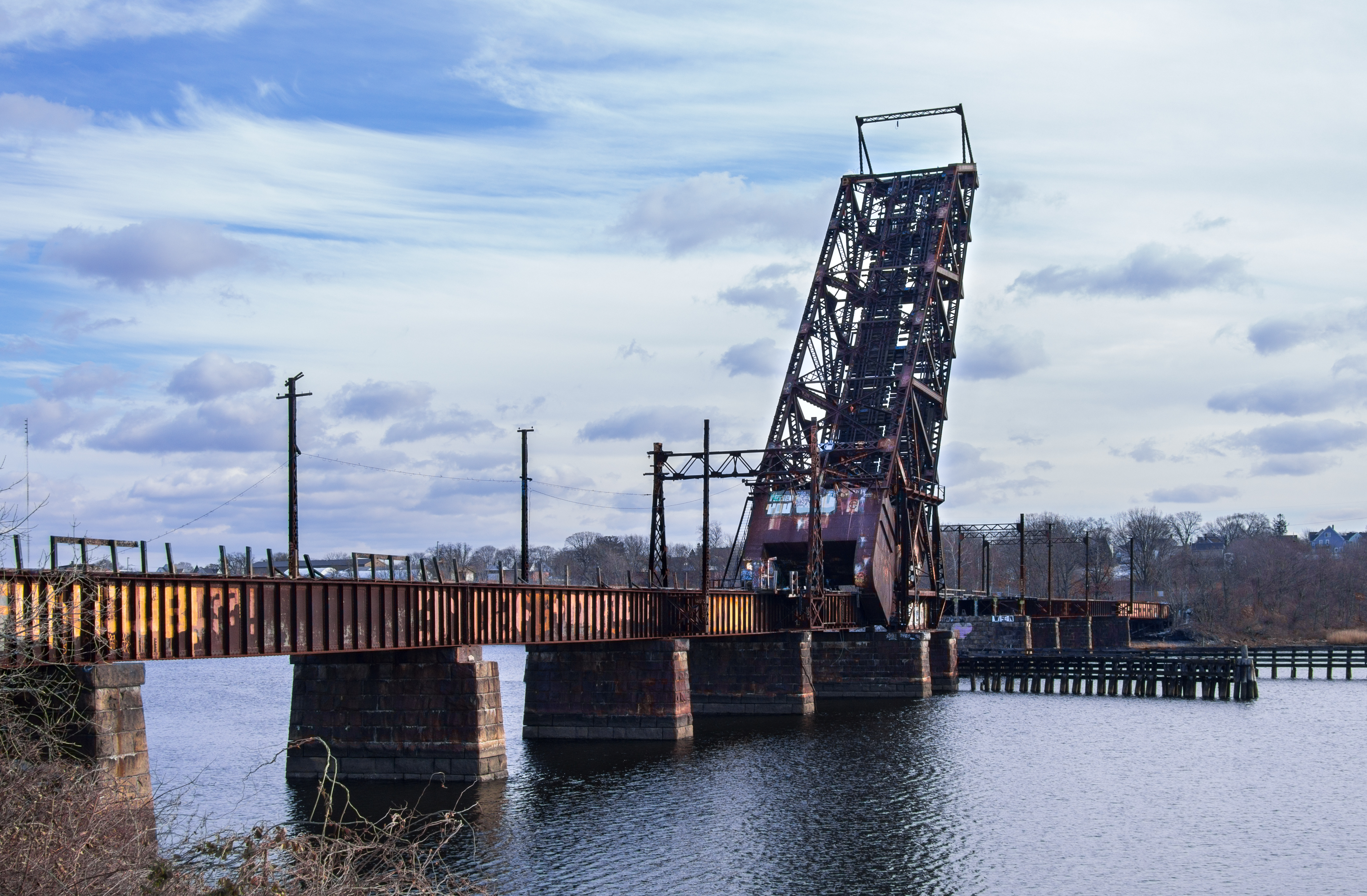 Crook Point Bascule Bridge in Providence, RI.